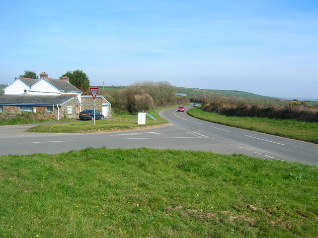 Plain Street Junction There is a new art gallery just off picture to the left